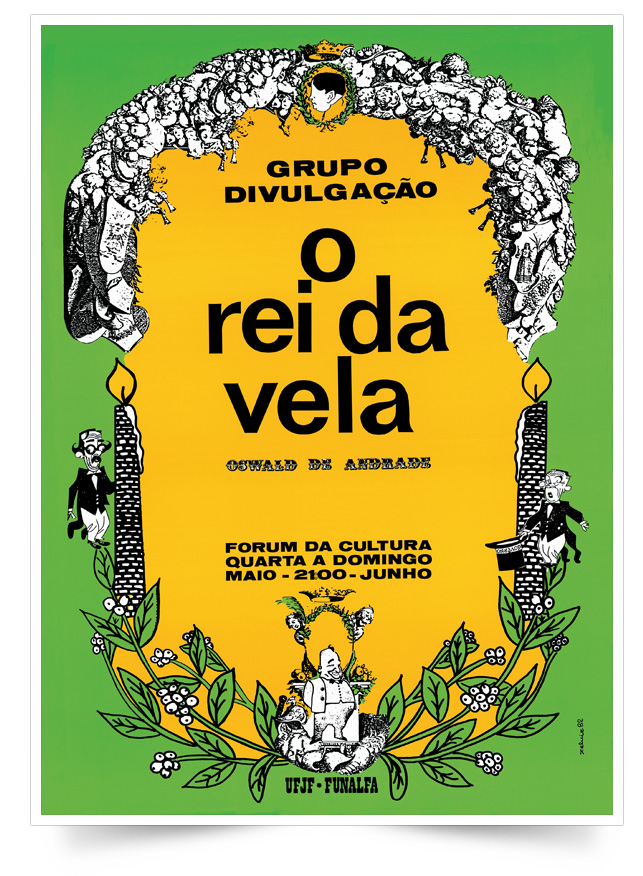 Cartaz de "O Rei da Vela", de Oswald de Andrade, montado pelo Grupo Divulgação em 1982.